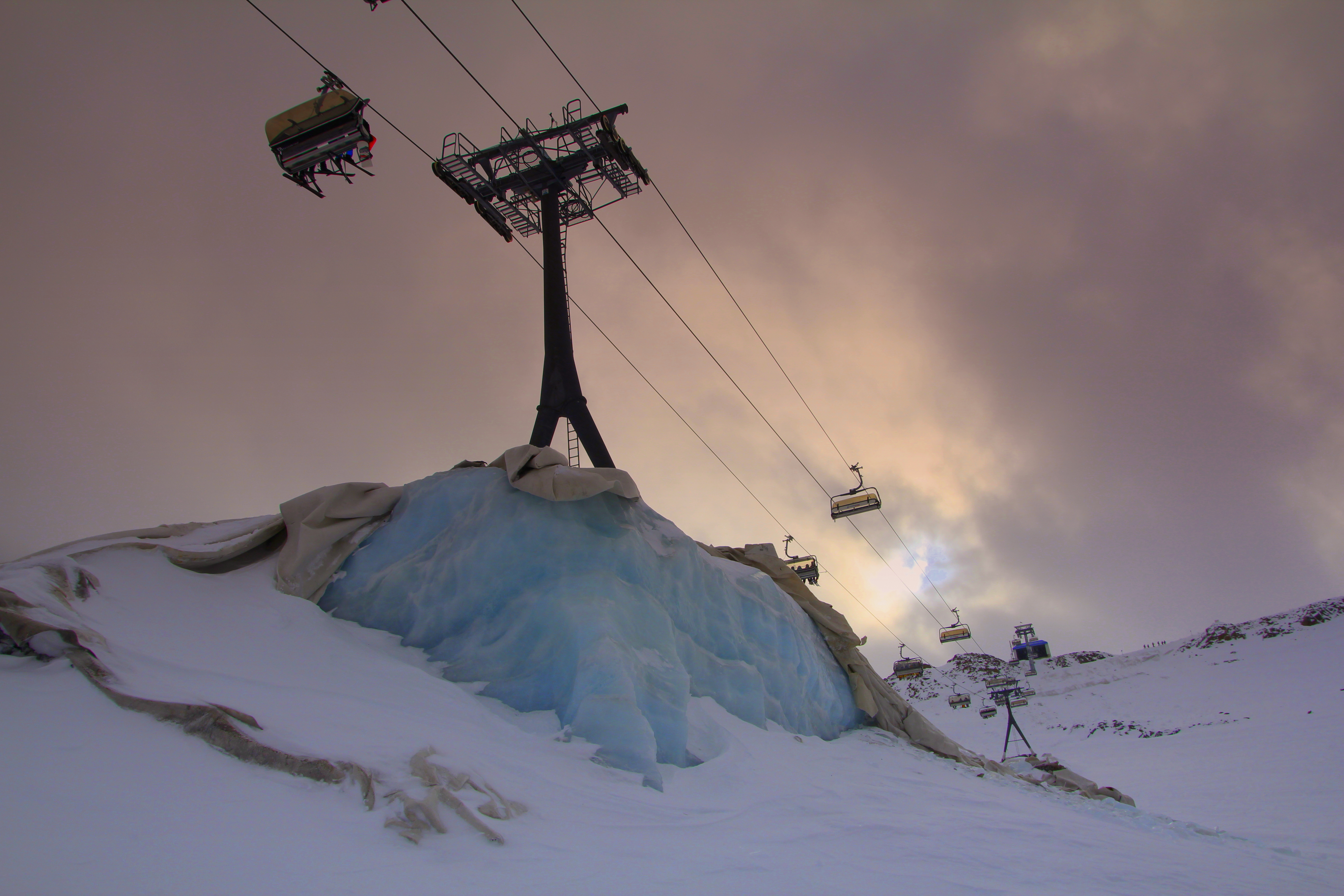 Stubai glacier, ski lift ice basis, partially covered with material against sun